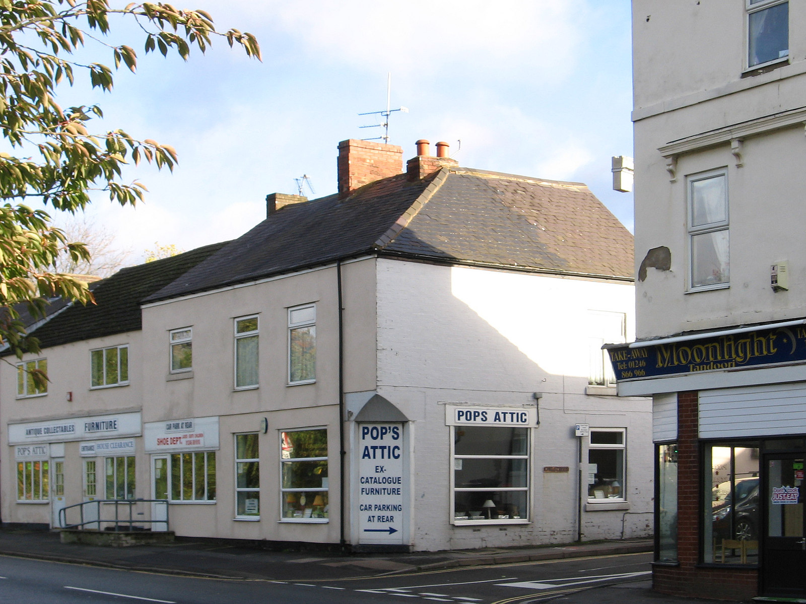 Clay Cross - former Kennings hardware shop